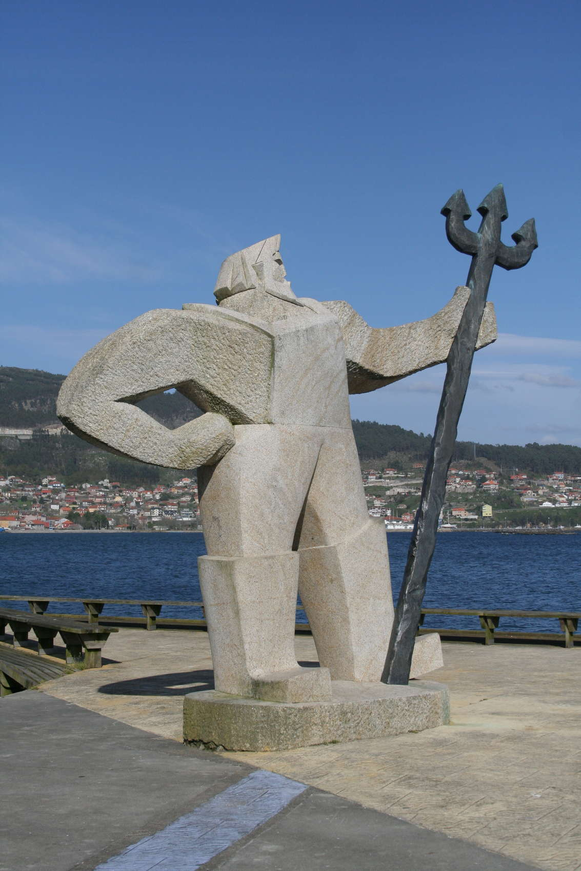 "O Fisgón" (2009) by Manuel Varela